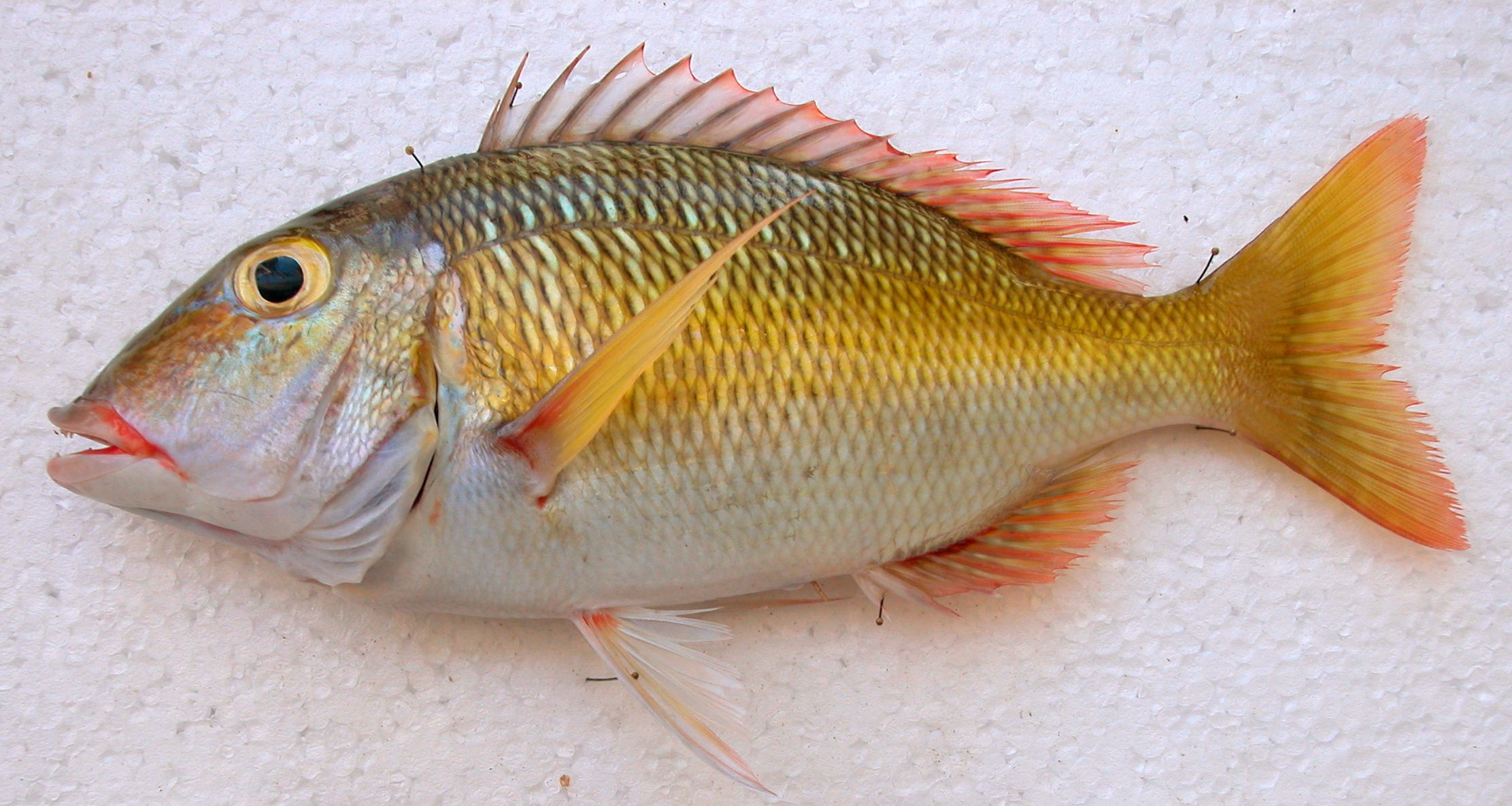 Lethrinus atkinsoni Seale, 1910. Voucher specimen deposited in the collections of the Muséum National d'Histoire Naturelle under registration number MNHN 2006-1636; parasitological number MNHN JNC1742. Locality: Grande Rade, Nouméa, New Caledonia Coordinates: 22°22' 1" S ; 163°22'59" E Date: 15 February 2006